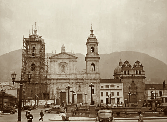 Cathedral of Bogota 40's